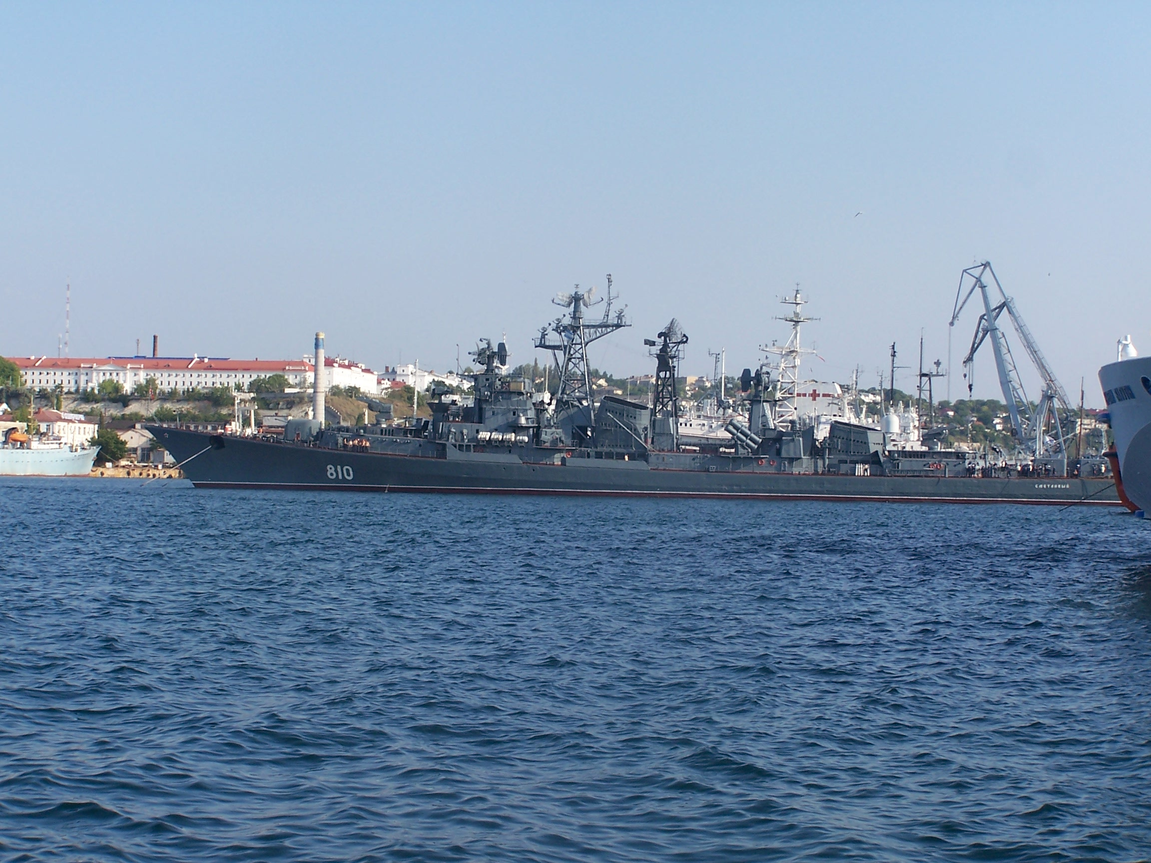 The Russian project 01090 guard ship (fomer project 61 large ASW ship, Kashin class destroyer) Smetlivyy on the Black Sea. Sevastopol.